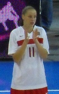 Kateřina Elhotová; in: Japan - Czech Republic match at 2010 FIBA World Championship for Women, Brno, Czech Republic